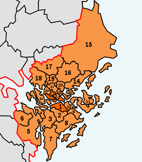 Map showing Metropolitan Stockholm. Stockholm is marked in dark-orange, and other municipalities belonging to the metropolitan area is mark in light-orange. County border is red. Legend: 1. Stockholm 2. Huddinge 3. Botkyrka 4. Salem 5. Södertälje 6. Nykvarn 7. Nynäshamn 8. Haninge 9. Tyresö 10. Nacka 11. Värmdö 12. Lidingö 13. Vaxholm 14. Österåker 15. Norrtälje 16. Vallentuna 17. Sigtuna 18. Upplands Bro 19. Upplands Väsby 20. Täby 21. Sollentuna 22. Danderyd 23. Järfälla 24. Ekerö 25. Sundbyberg 26. Solna